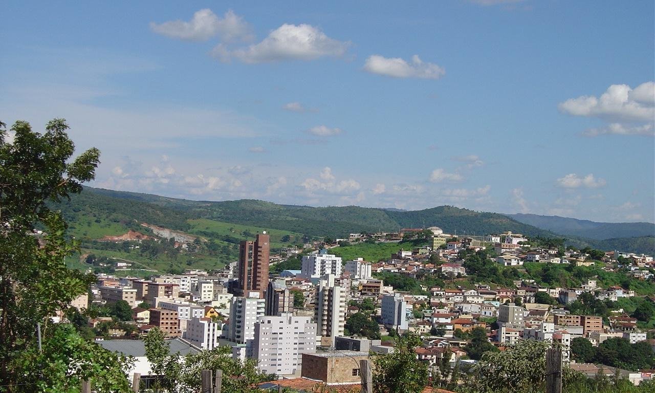 A landscape view of the brazilian city Itaúna in Minas Gerais